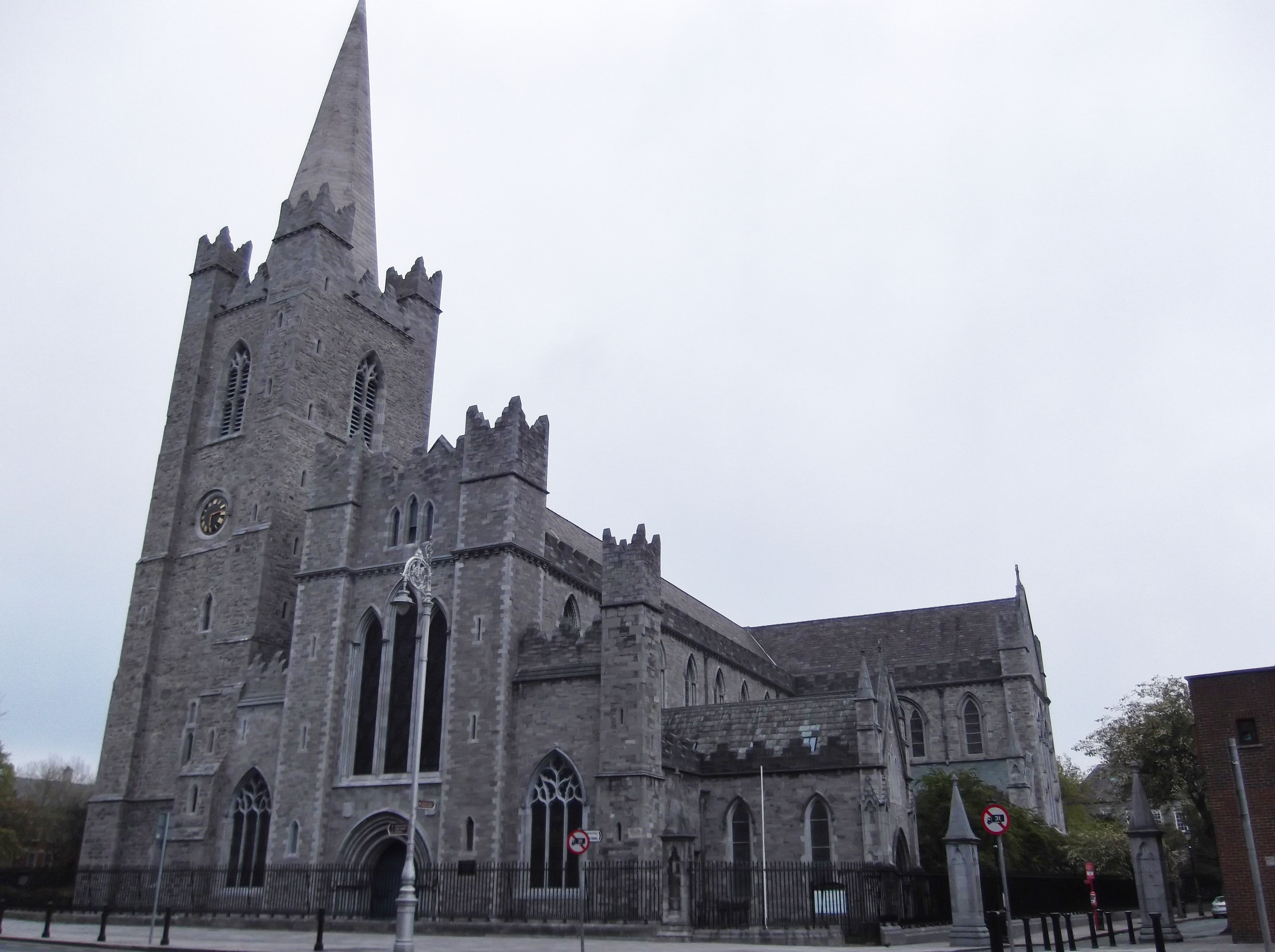 Photograph of St Patrick's Cathedral, Dublin